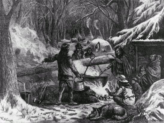 Canadian Illustrated News: Sugar-Making Among the Indians in the North